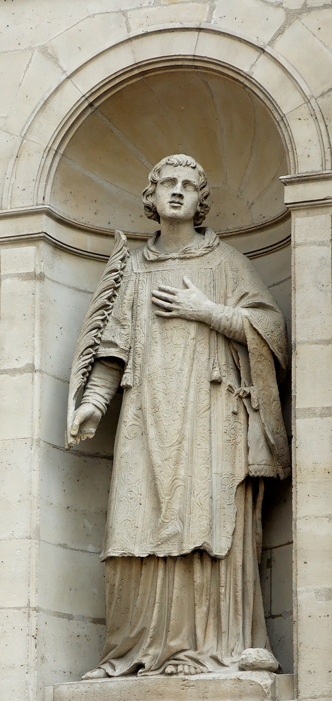 Statue of St. Stephen by Joseph Marius Ramus (French, 1805–1888). From the façade of the 17th-century church Saint-Étienne-du-Mont ("St. Stephen in the Mount") in Paris. St. Stephen holds the palm of martyrdom; a stone, the instrument of his martyrdom, lies at his feet.